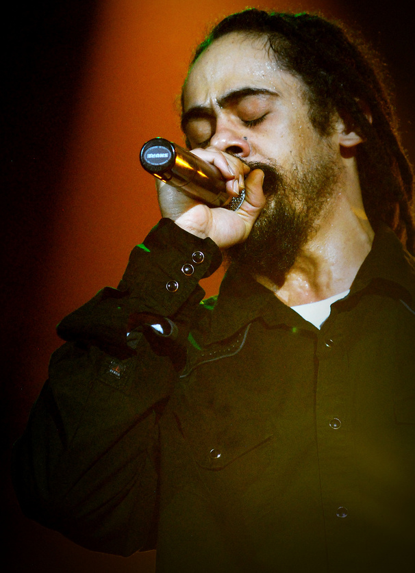 Damian Marley performing in Castillo Marroquín, Bogotá. in 7 November 2011.